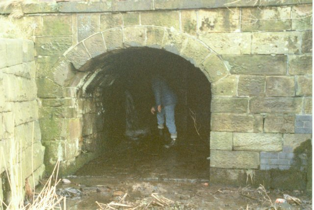 Photo taken by Geotek. The canal entrance to the Wet Earth Colliery